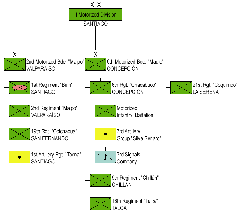 II Division del Ejercito de Chile